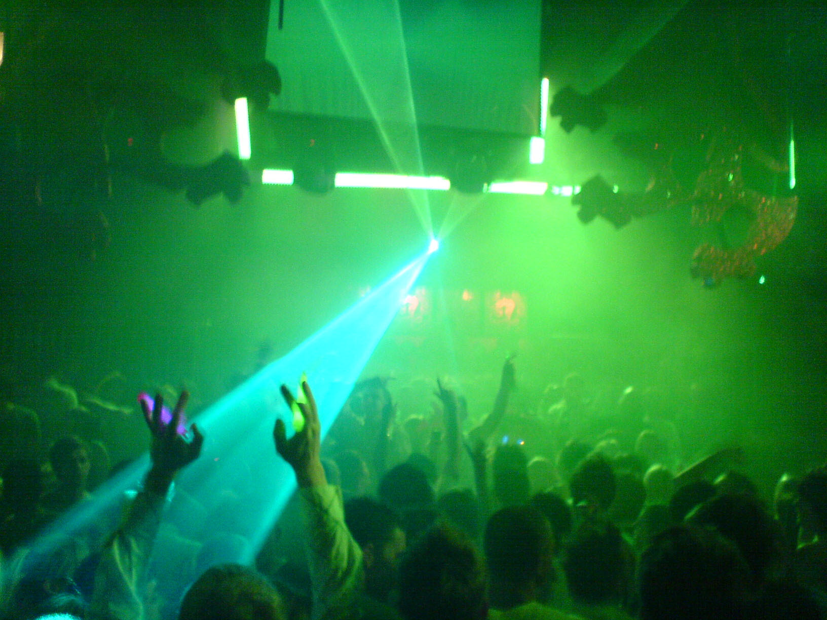 Photograph taken by Mushin at Gatecrasher on 16 April 2006.